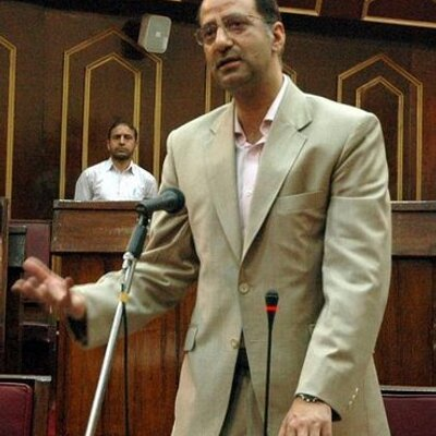 The picture is of Nasir Aslam Wani, a prominent politician of J&K